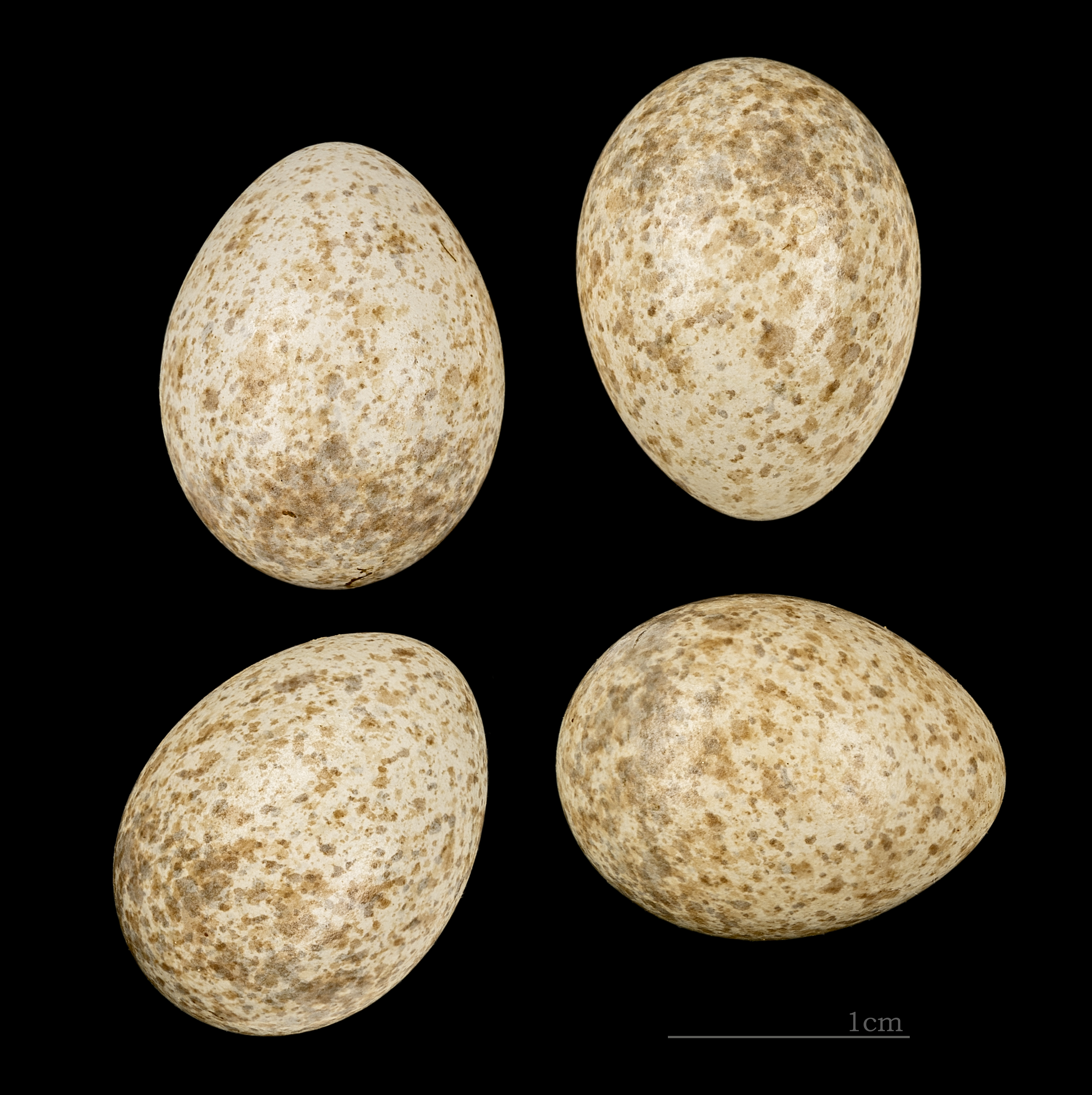 Egg of Lesser Short-toed Lark. Collection of Jacques Perrin de Brichambaut.